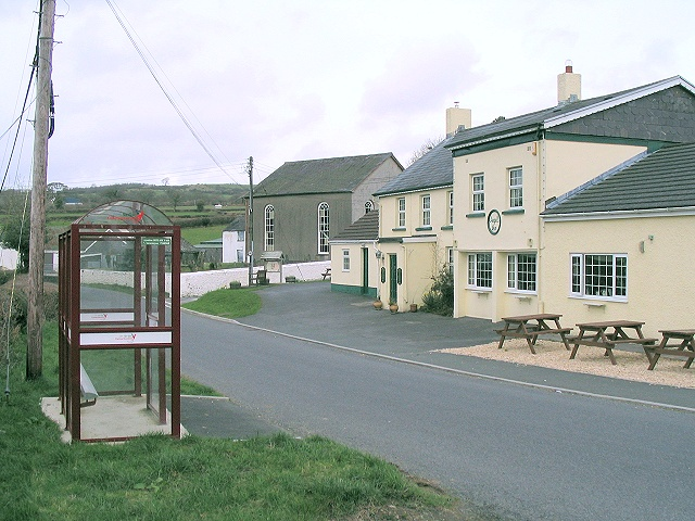 Salem. The bus stop, church and Angel pub at the north end of the village. Strangely, on the 1940 map, the village appears to have a different name: Heol Galed